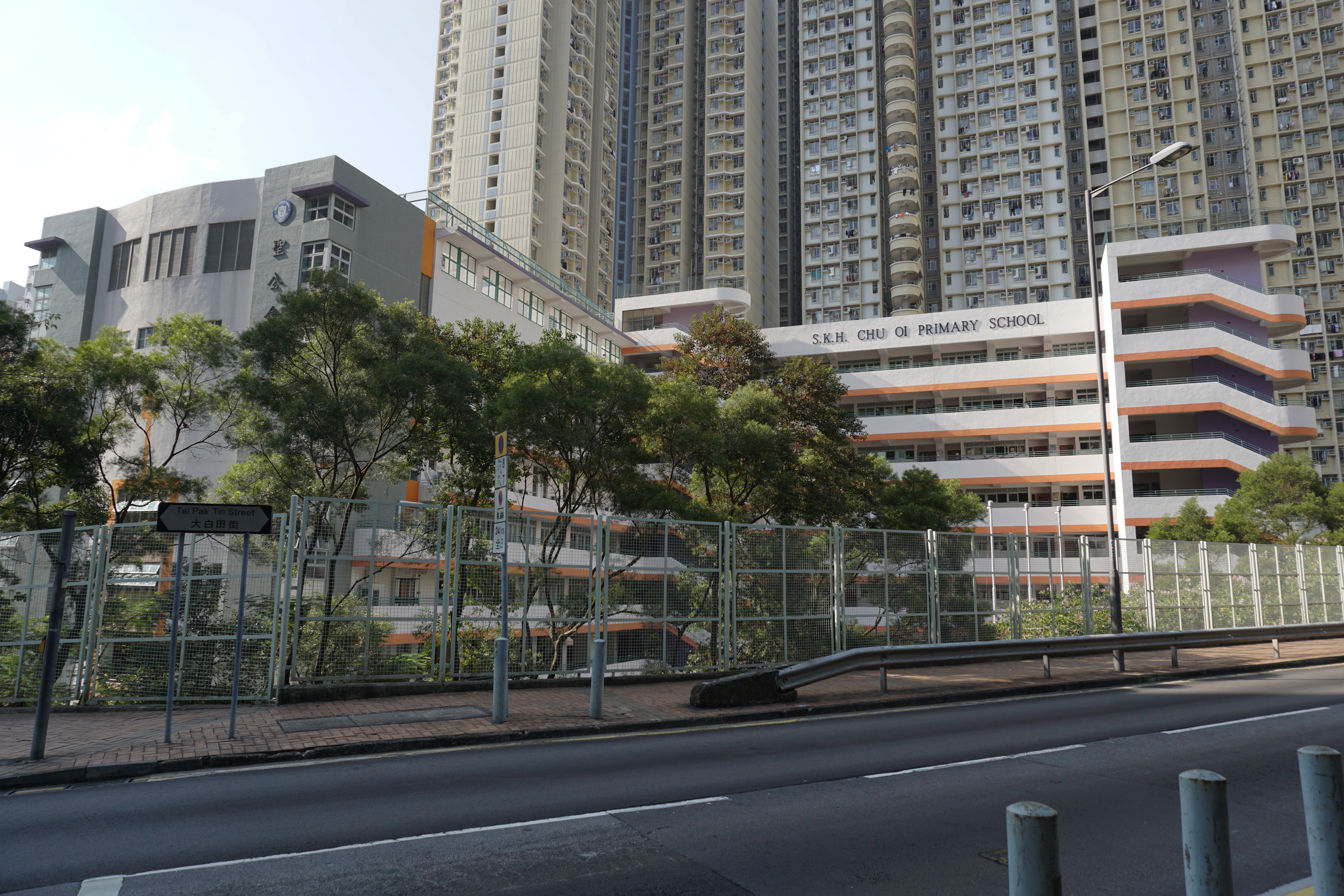 S.K.H. Chu Oi Primary School in Shek Yam, Hong Kong.